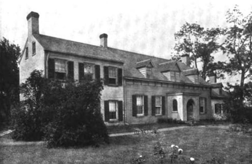 The Kreuzer-Pelton House is a pre-Revolutionary house in New York listed on the National Register of Historic Places.